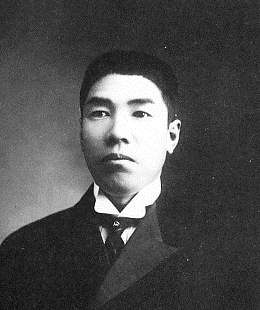 Kunio Kindaichi